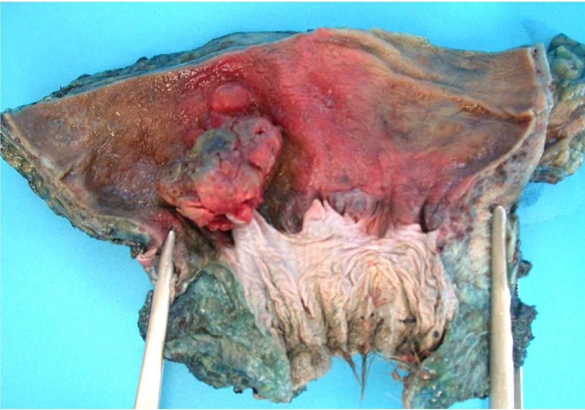 Macroscopic image of rectal melanoma.